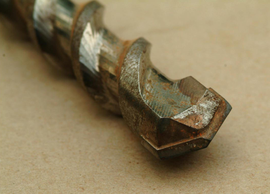 Masonry drill bit tip. This is the tip of a 25*400 mm masonry drill. A tungsten carbide insert is brazed to the steel drill body. Drill made in about 2002. Picture made UK, June 2005.